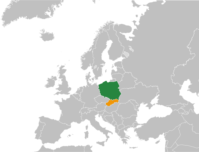 Blank map of Europe